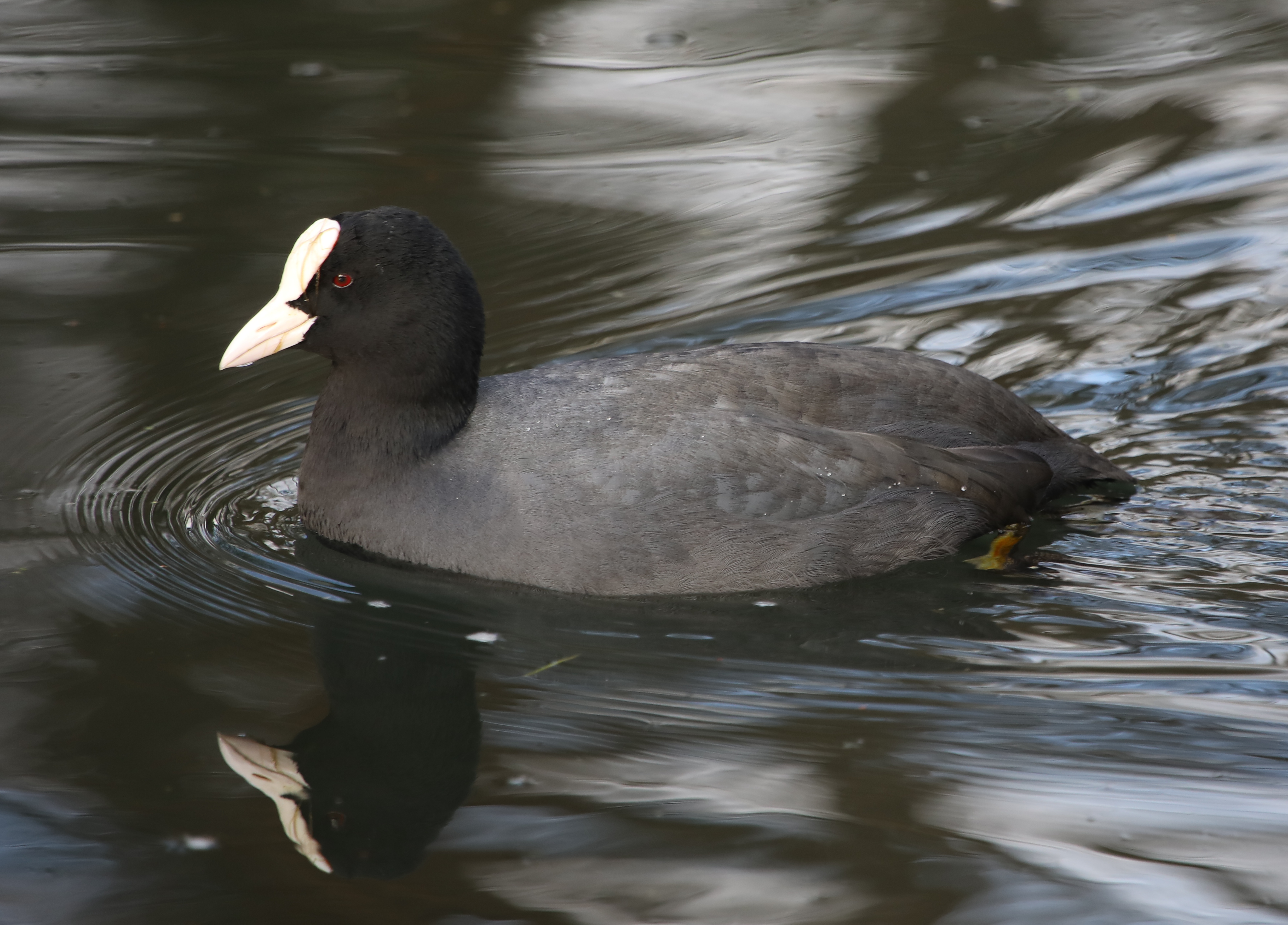 Photo of a Fulica atra swimming in the river iItchen in Southampton.